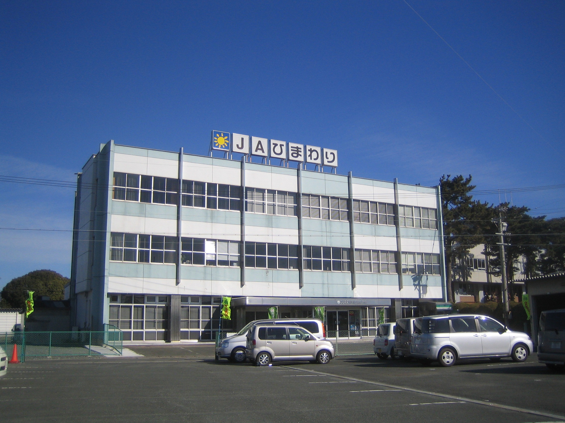 JA (Japan Agricultural Cooperatives) Himawari (ひまわり農業協同組合), located at 1-1 Suwa, Toyokawa, Aichi, Japan